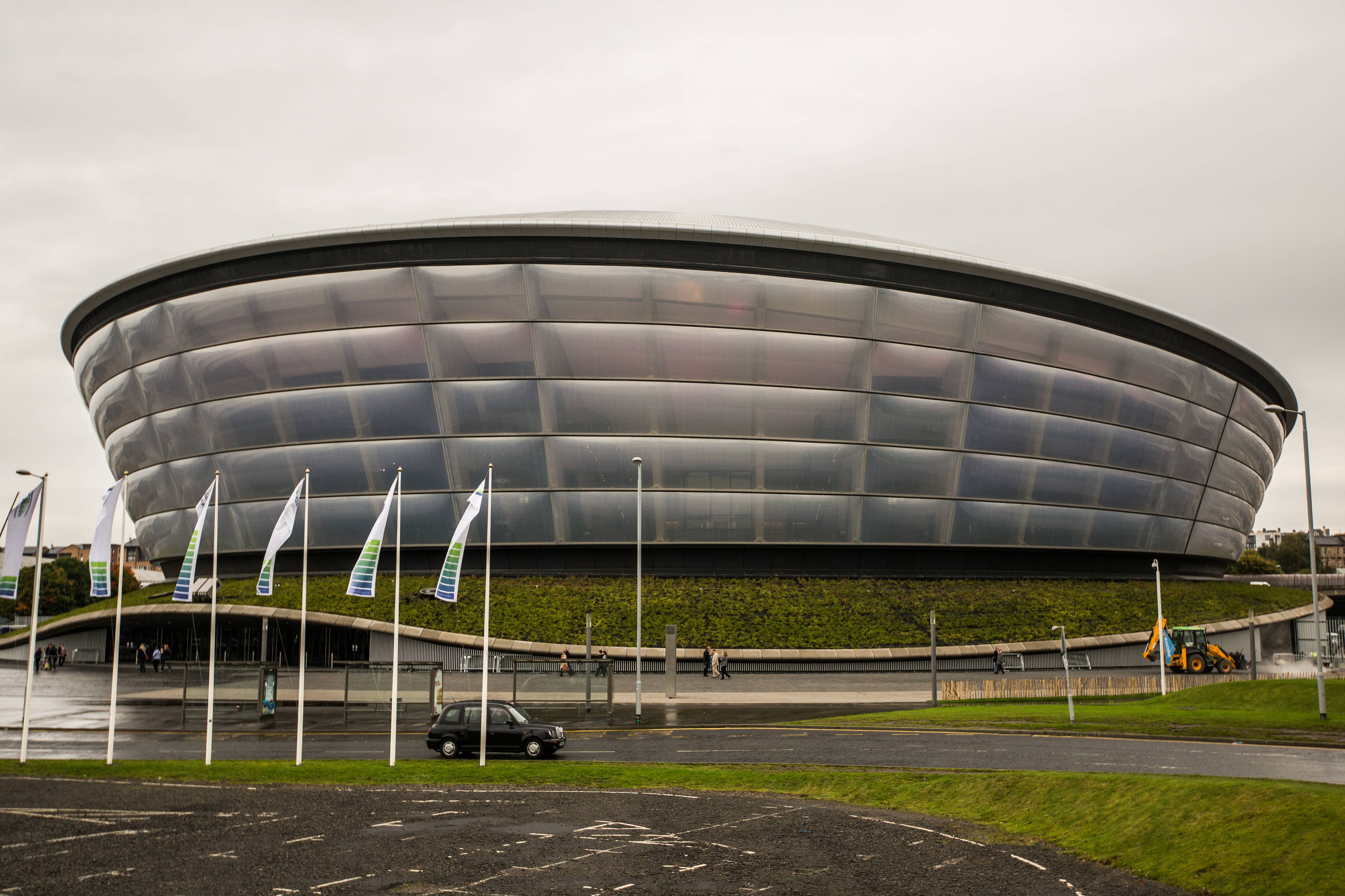 The SSE Hydro Glasgow Scotland UK 12281460043 o